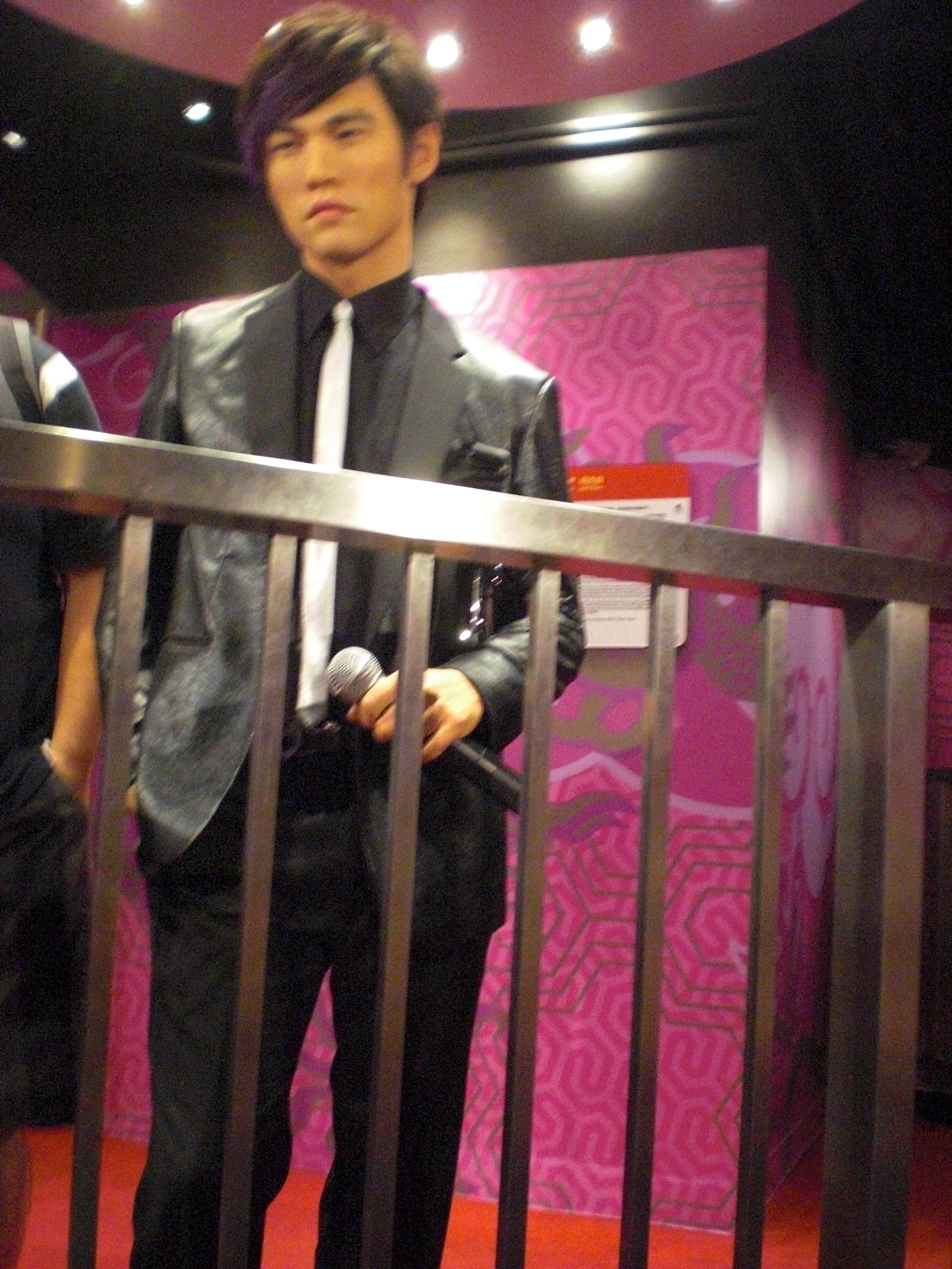 Jay Chou